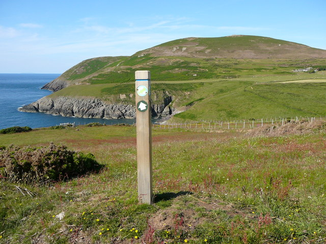 On the new Lleyn Peninsula Coastal Path at Porth Llanllawen